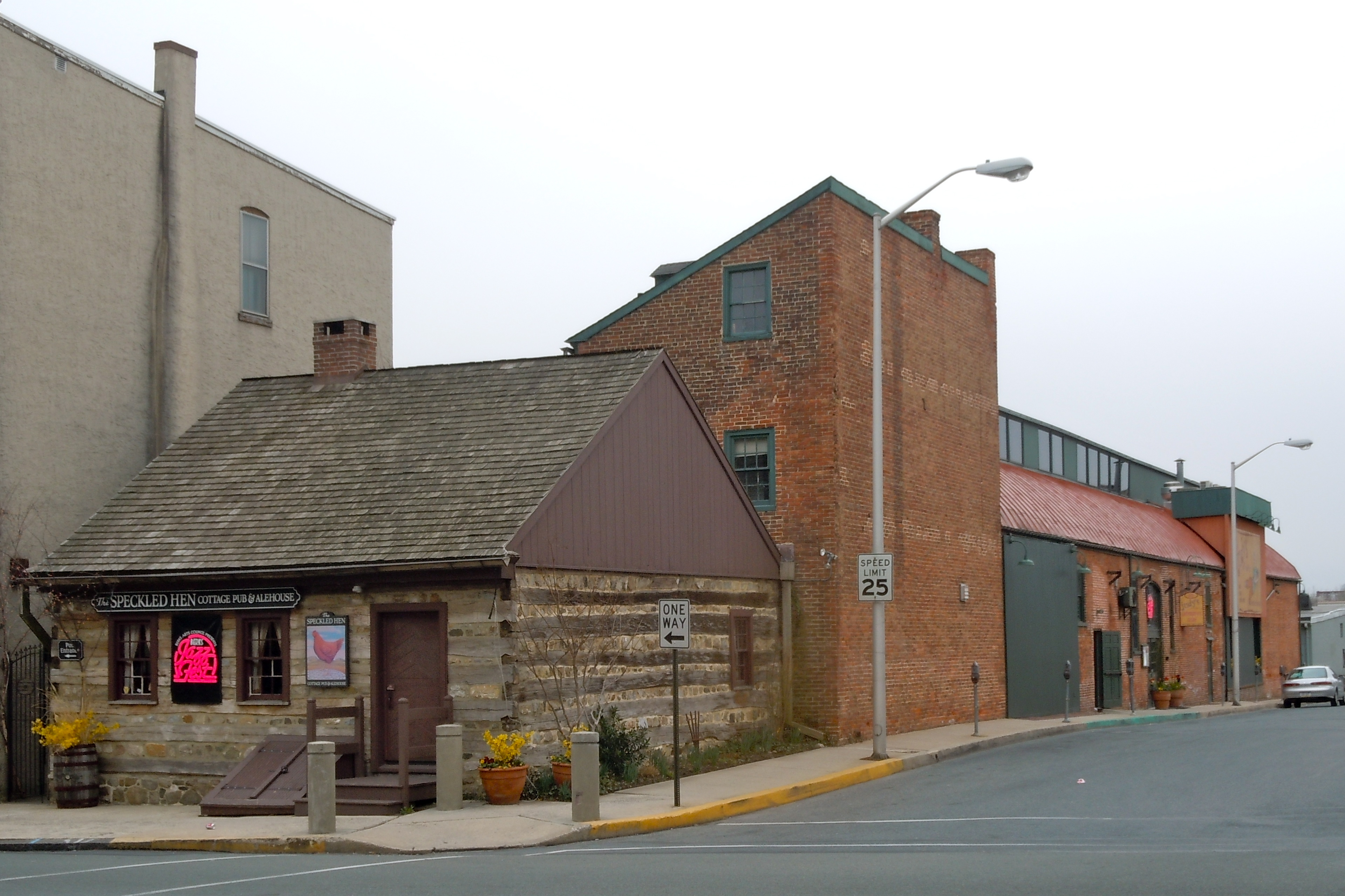 Speckled Hen (bar) aka Log House, Hiester House and Market Annex on the NRHP since November 20, 1979. At 30 South 4th Street, right in downtown Reading, Pennsylvania. An odd combination but it looks like it works pretty well.